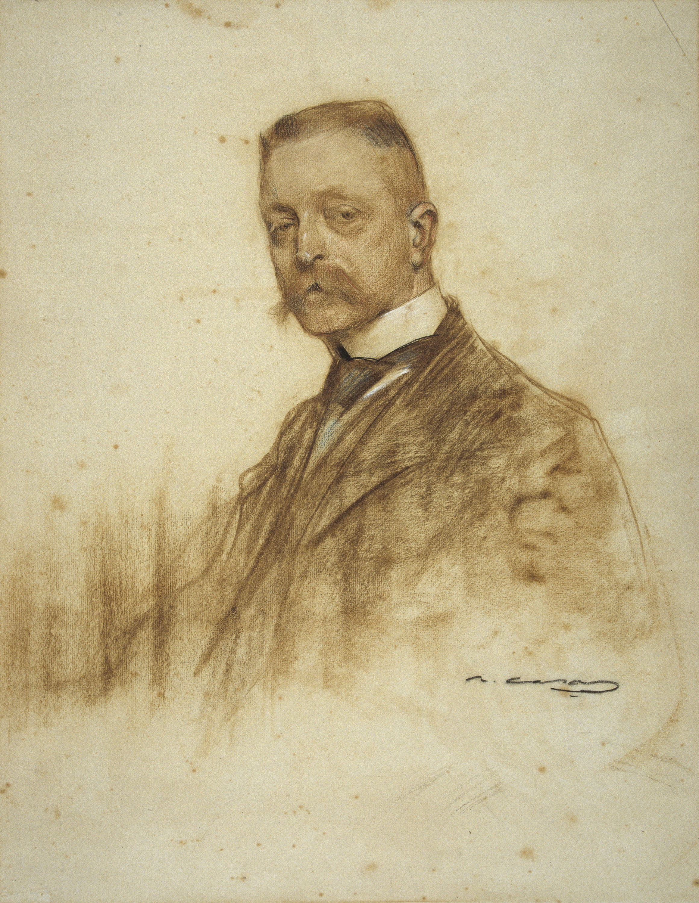 Portrait by Ramon Casas conserved at MNAC in Barcelona.